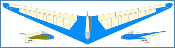 Horten IIIe Flying Wing Motorglider